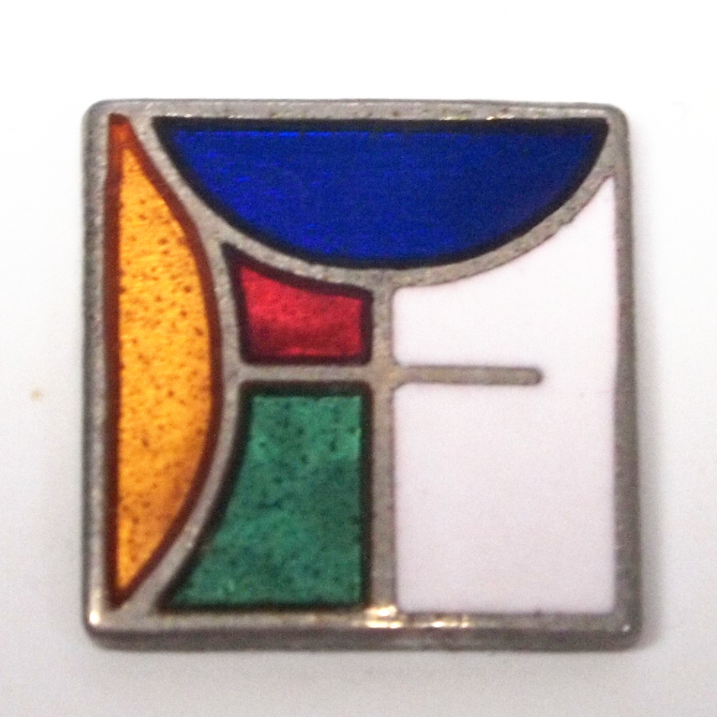 Symbol mark of TRON Project (photo of my own μTRON keyboard)